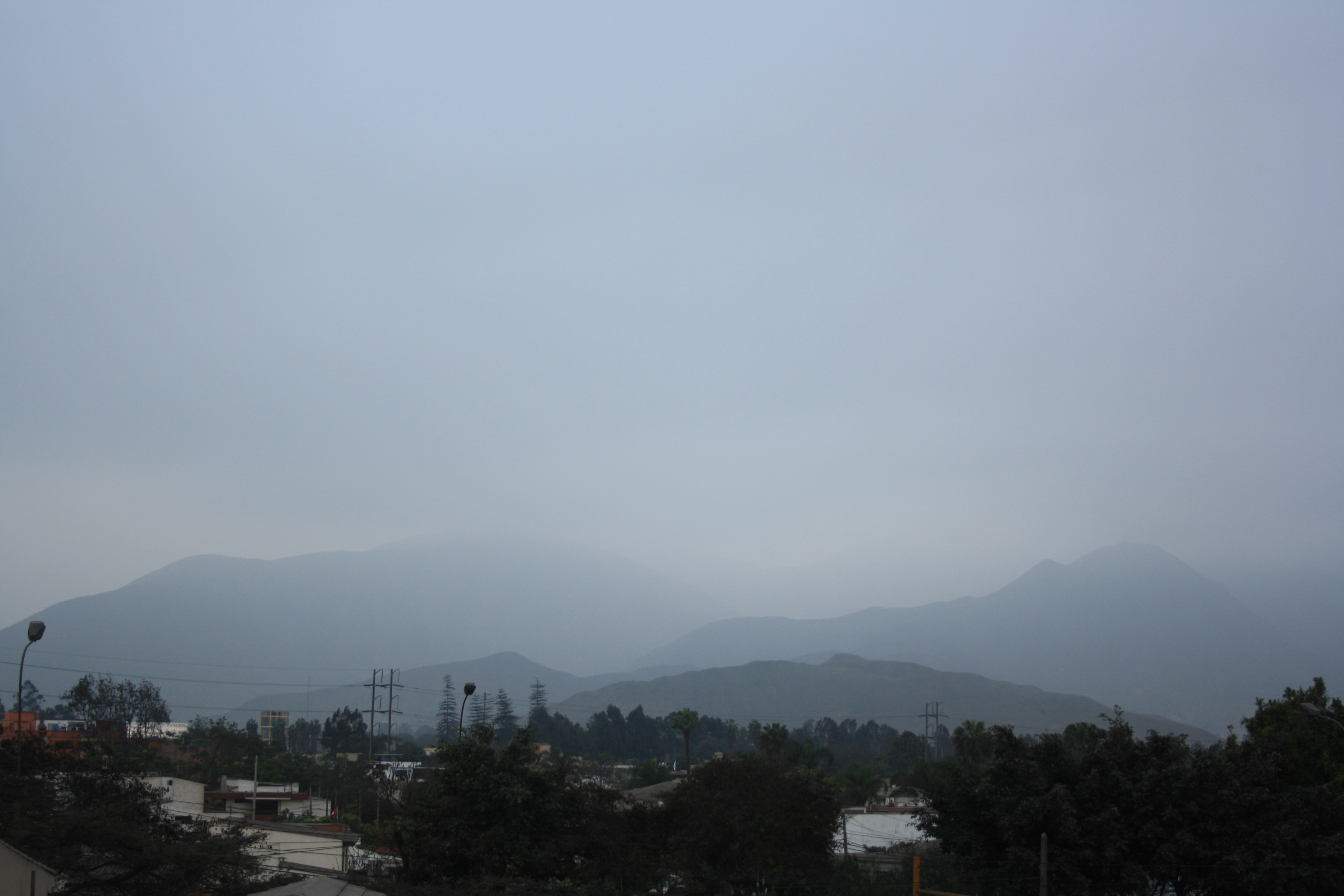 Fog between the mountains in La Molina, Lima, Peru.